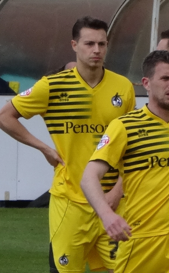 Billy Bodin playing for Bristol Rovers against York City at Bootham Crescent, York on 30 April 2016